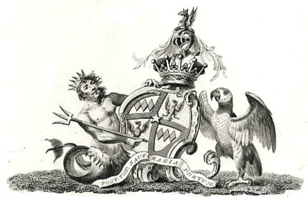 Coat of Arms of the earls of Sandwich